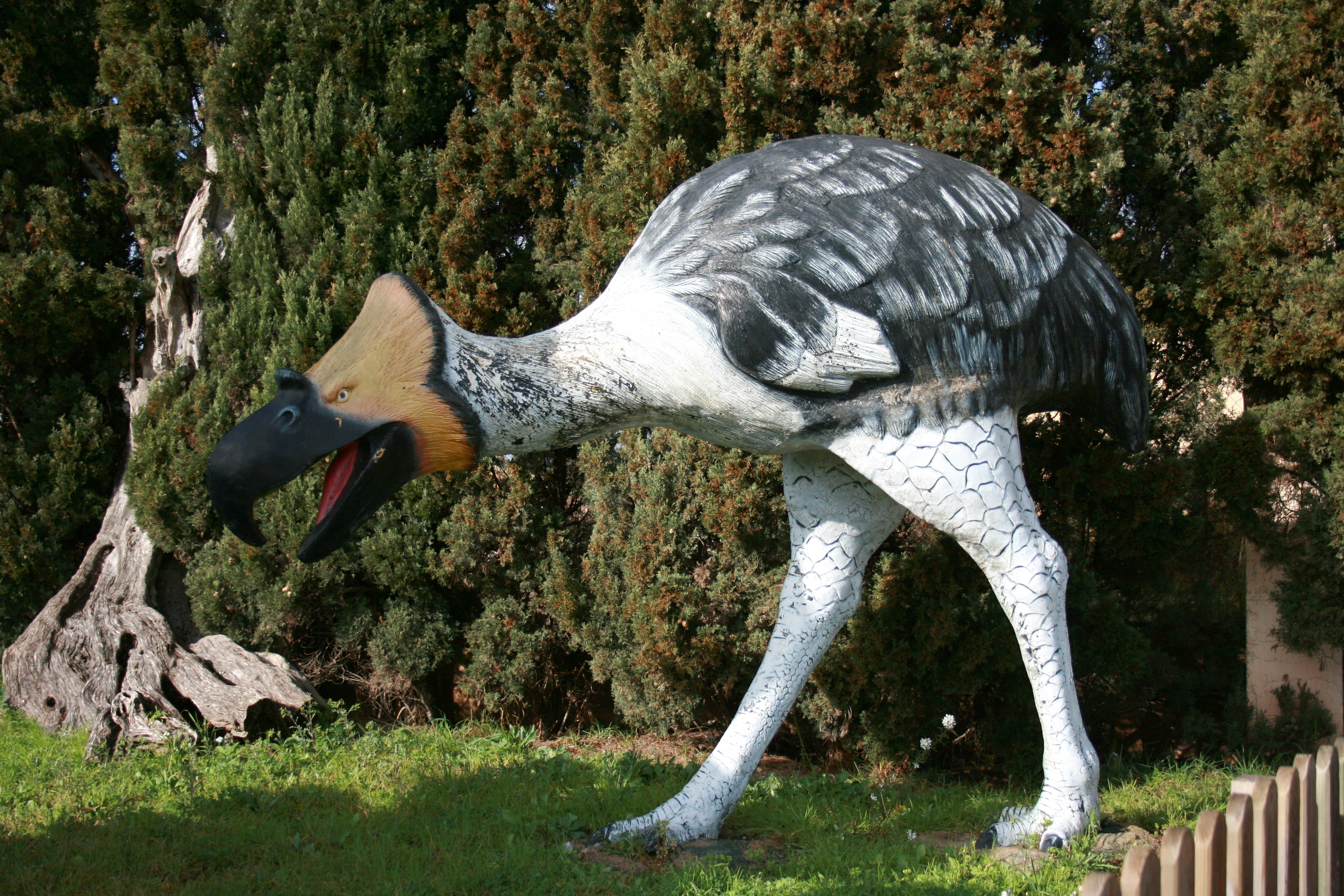 The Oliv-art park shows models of dinosaurs an other prehistoric animals. It belongs to the factory “Oliv-art” but is free and public. It's situated at the roundabout “Carrera de Palma” of road Ma-15 in Manacor, Mallorca.